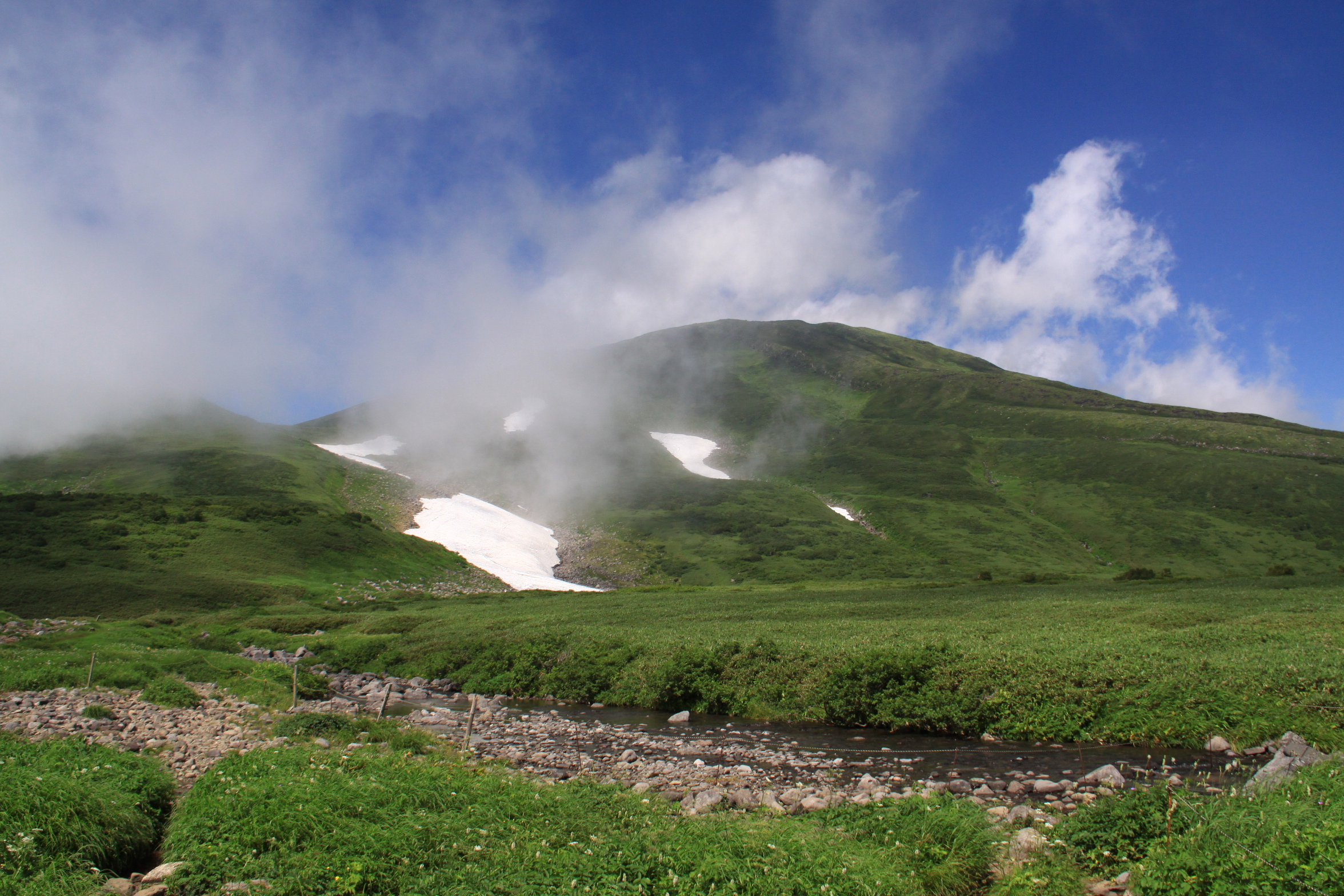 Mt. Chokai in summer.